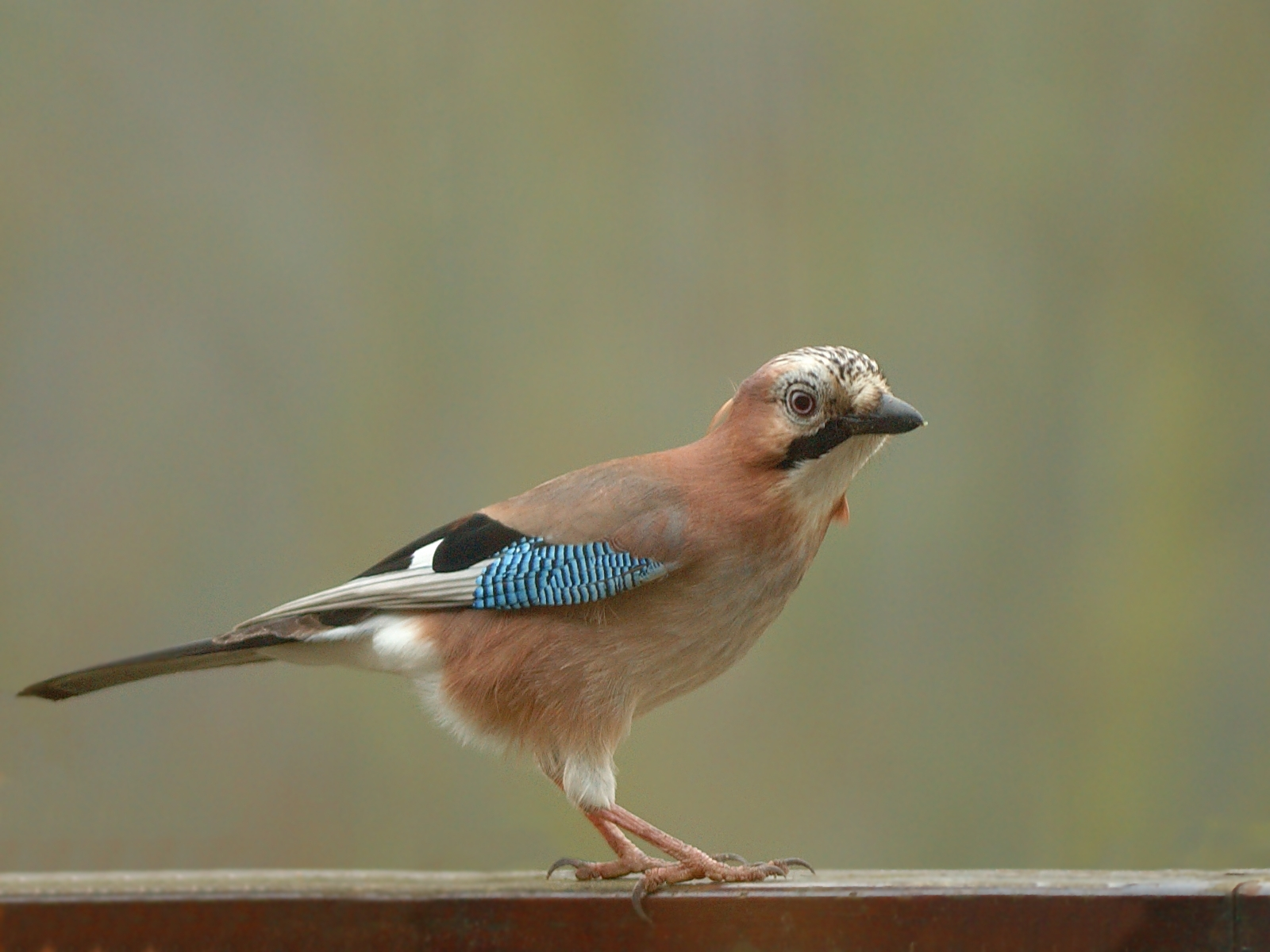 Garrulus glandarius in Belgium (Hamois).